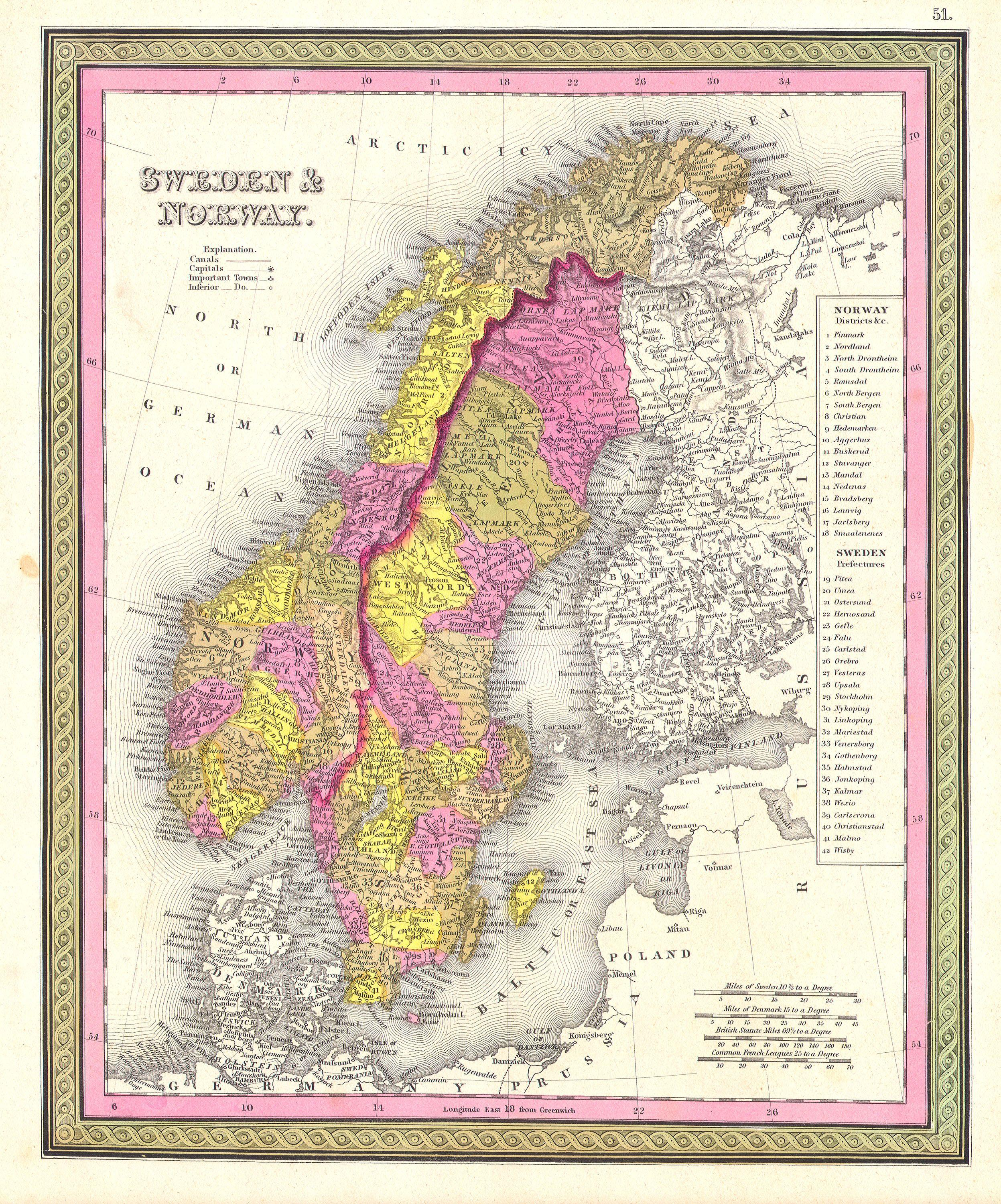 This scarce hand colored map is a lithographic engraving of Norway and Sweden, dating to 1846 by the legendary American Mapmaker S.A. Mitchell, the elder. Depicts Scandinavia in full from the Arctic to Denmark. Includes Finland. Chart of governing districts on the left side.